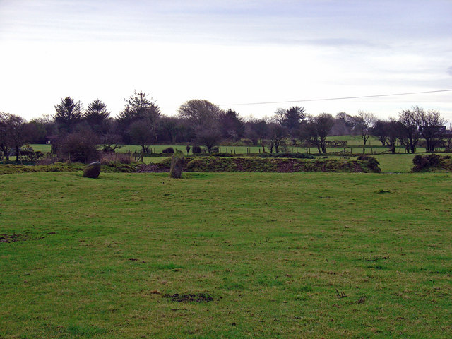 Meini-gwyr Scant remains of Bronze Age Stone Circle.